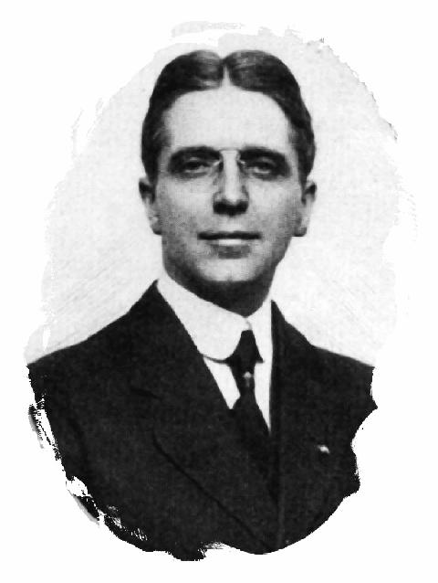 John North Willys ca. 1918